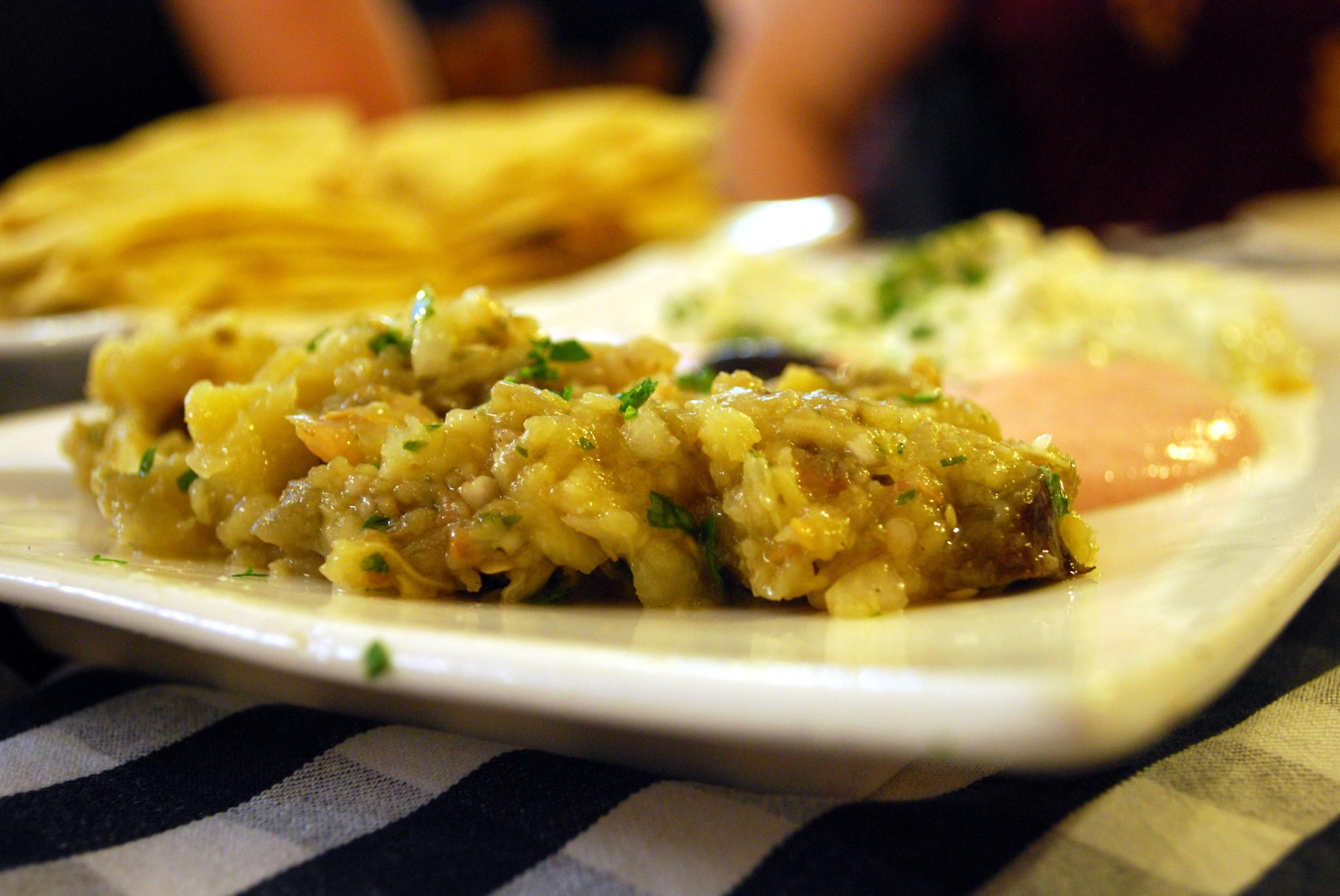 Lebanese Baba ghanoush closeup